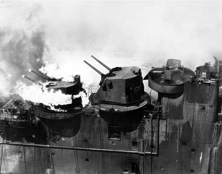 View of the after 5"/38 twin gun mount of the U.S. Navy aircraft carrier USS Franklin (CV-13) burning, as her crew tried to control fires on 19 March 1945. The carrier had been hit by a Japanese air attack while operating off the coast of Japan. Photographed from USS Santa Fe (CL-60), which extinguished the fire in this gun mount by playing streams of water through the mount's open door. Later, the other 5"/38 twin gun mount and the 40 mm quad gun mount (at right) also burned. Note ammunition loaded in the feed racks of the 40mm guns.